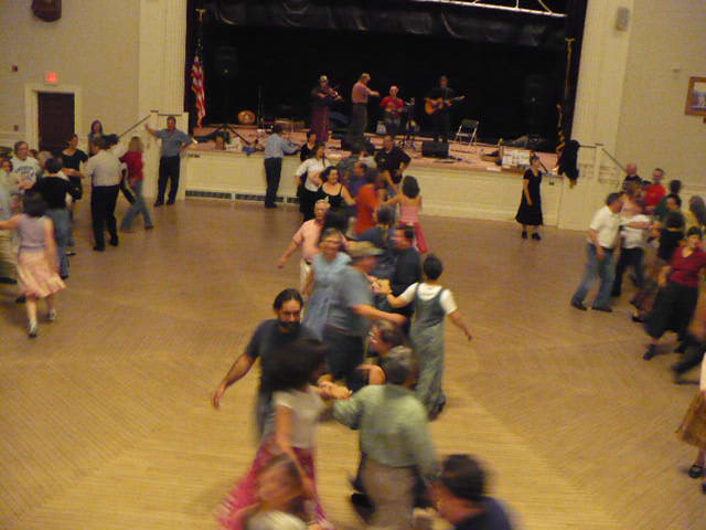 Milford town hall contra dance Steve Zakon-Anderson calling